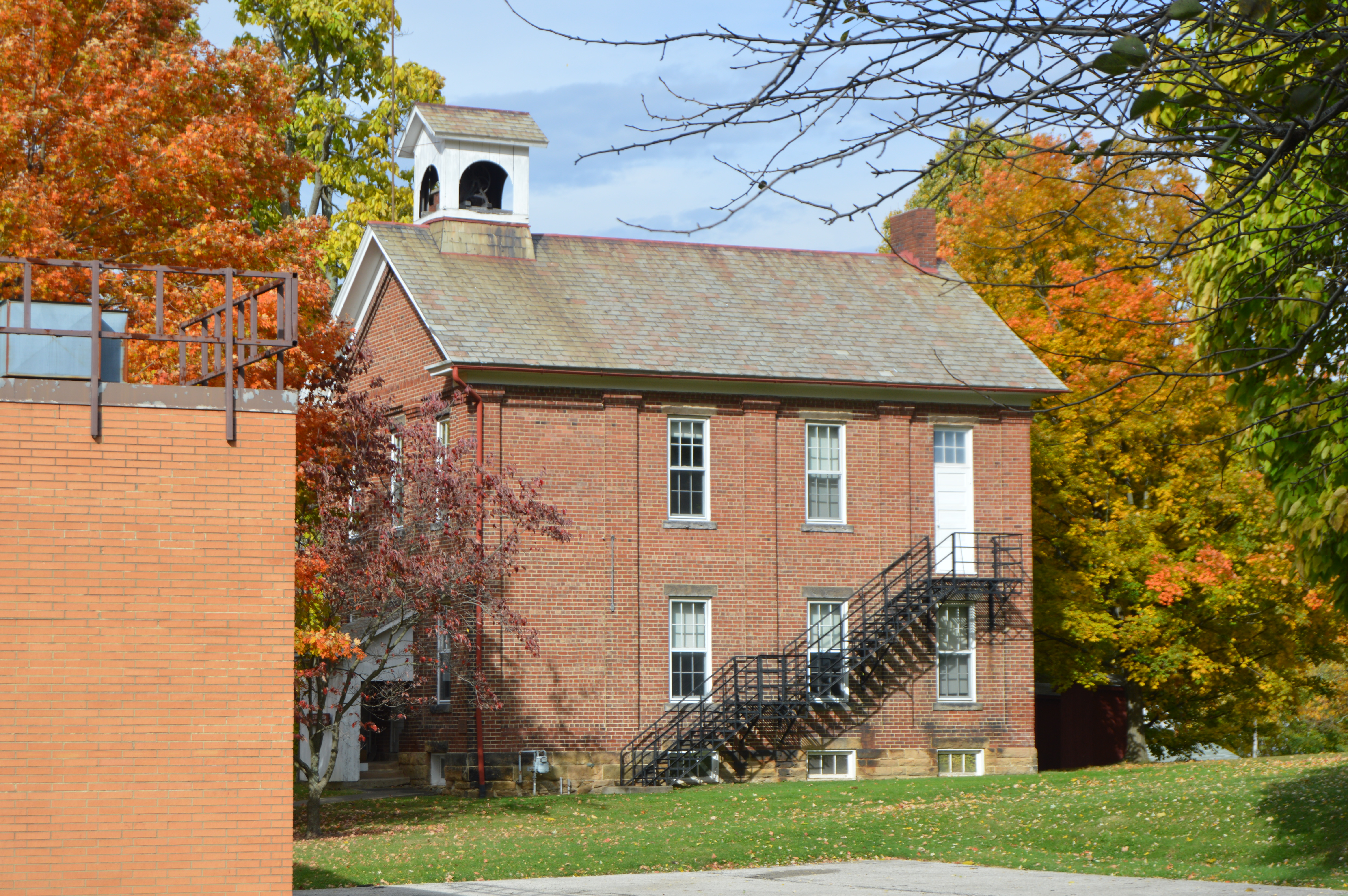 Southern side of the Damascus Grade School, located at 14923 Morris Street (State Route 534) in Damascus, Ohio, United States. Built in 1902, it is listed on the National Register of Historic Places.